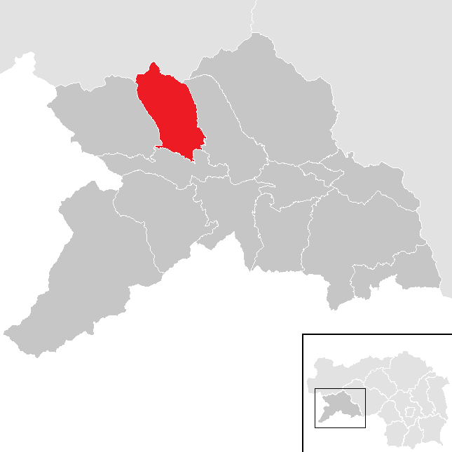 district Murau